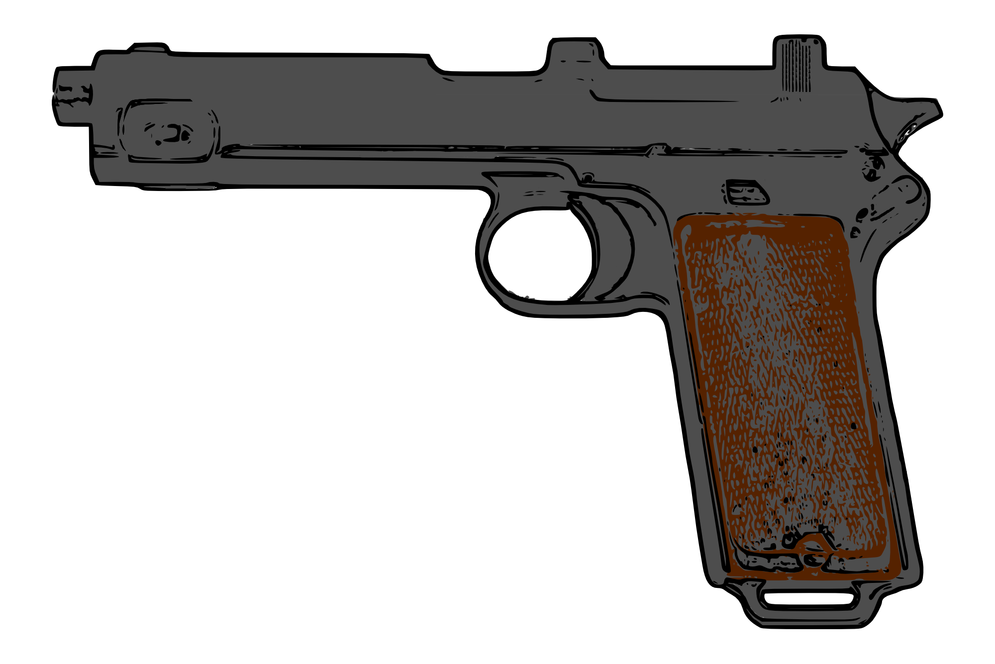 Steyr M1912, standard sidearm of the Austro-Hungarian Army